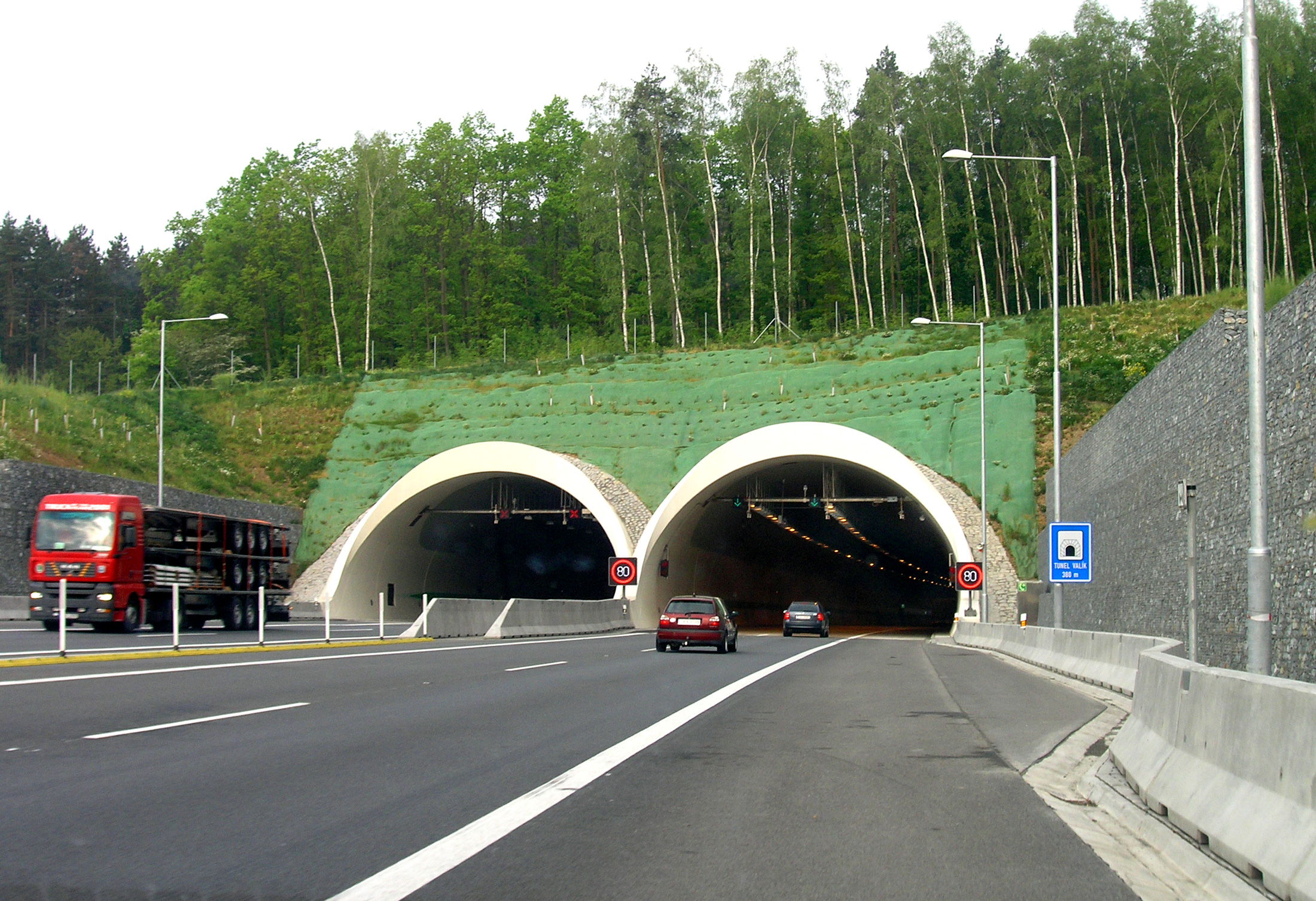 Valík tunnel at D5 highway near Plzeň, Czech Republic